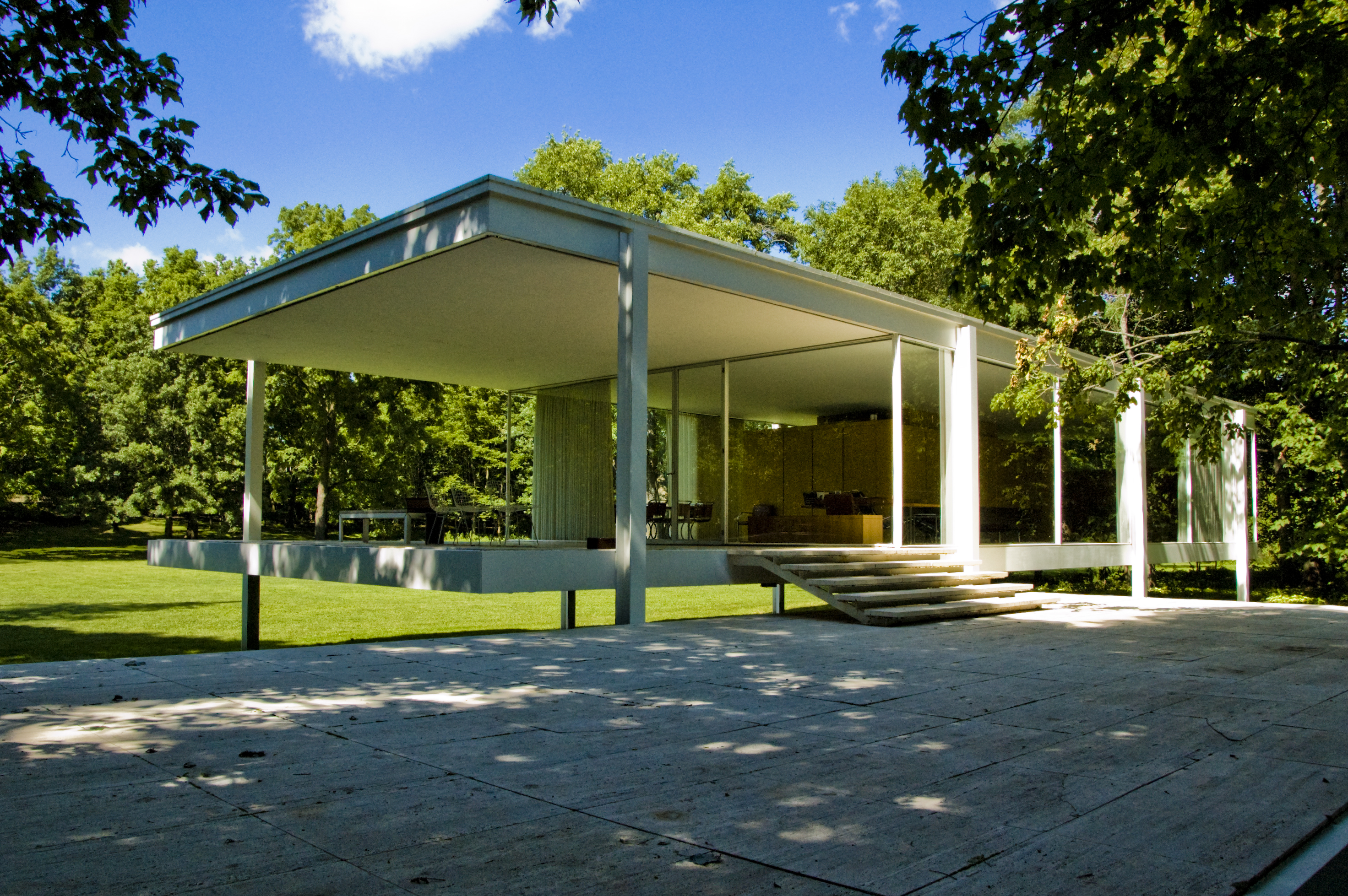 Farnsworth House (Illinois) by Mies van der Rohe